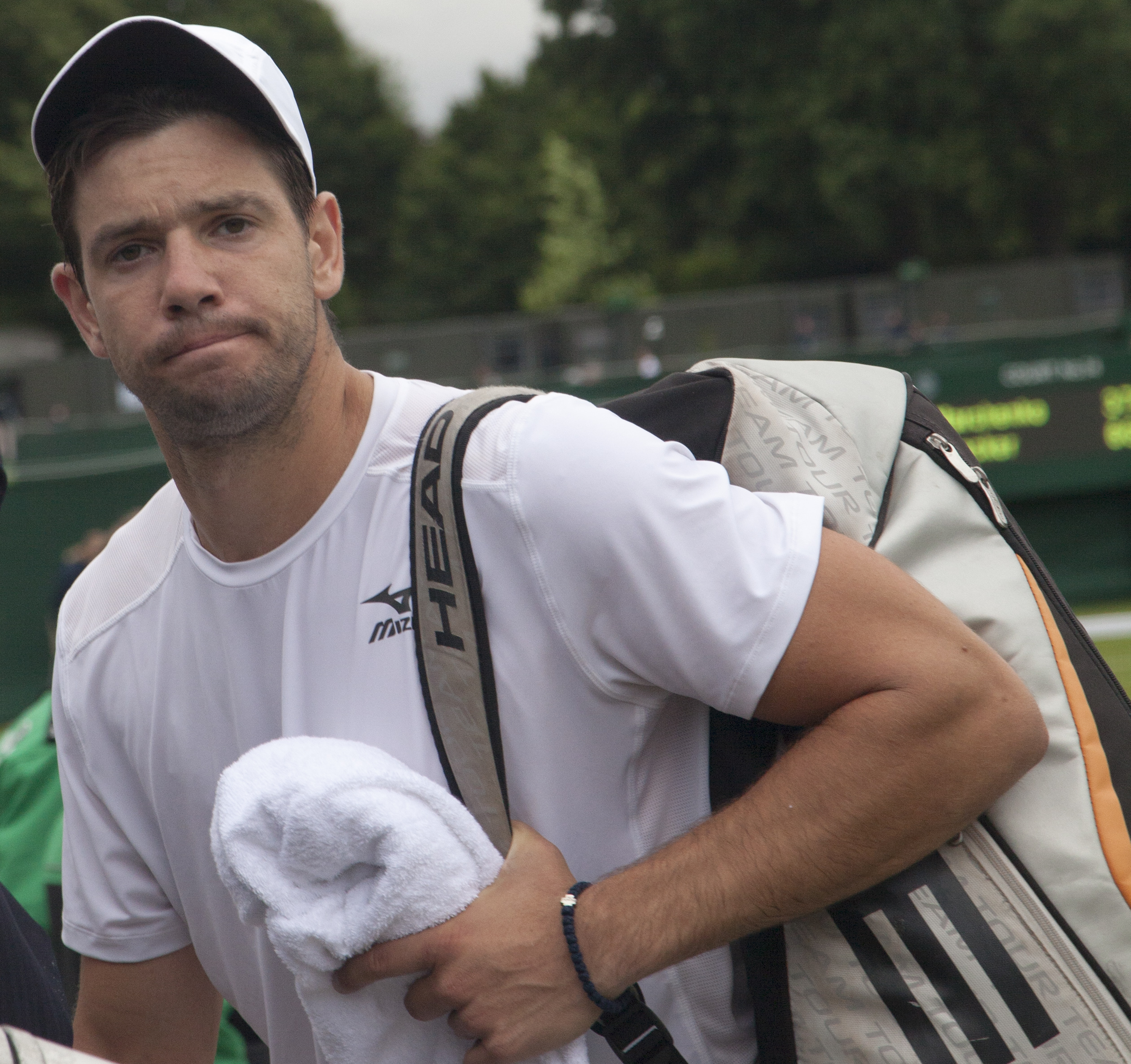 Miljan Zekić after Wimbledon Qualifying defeat 2017